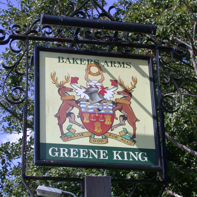 Bakers Arms sign The arms are those of the Worshipful Company of Bakers, which were granted in 1590. The buck supporters are an allusion to buckwheat.